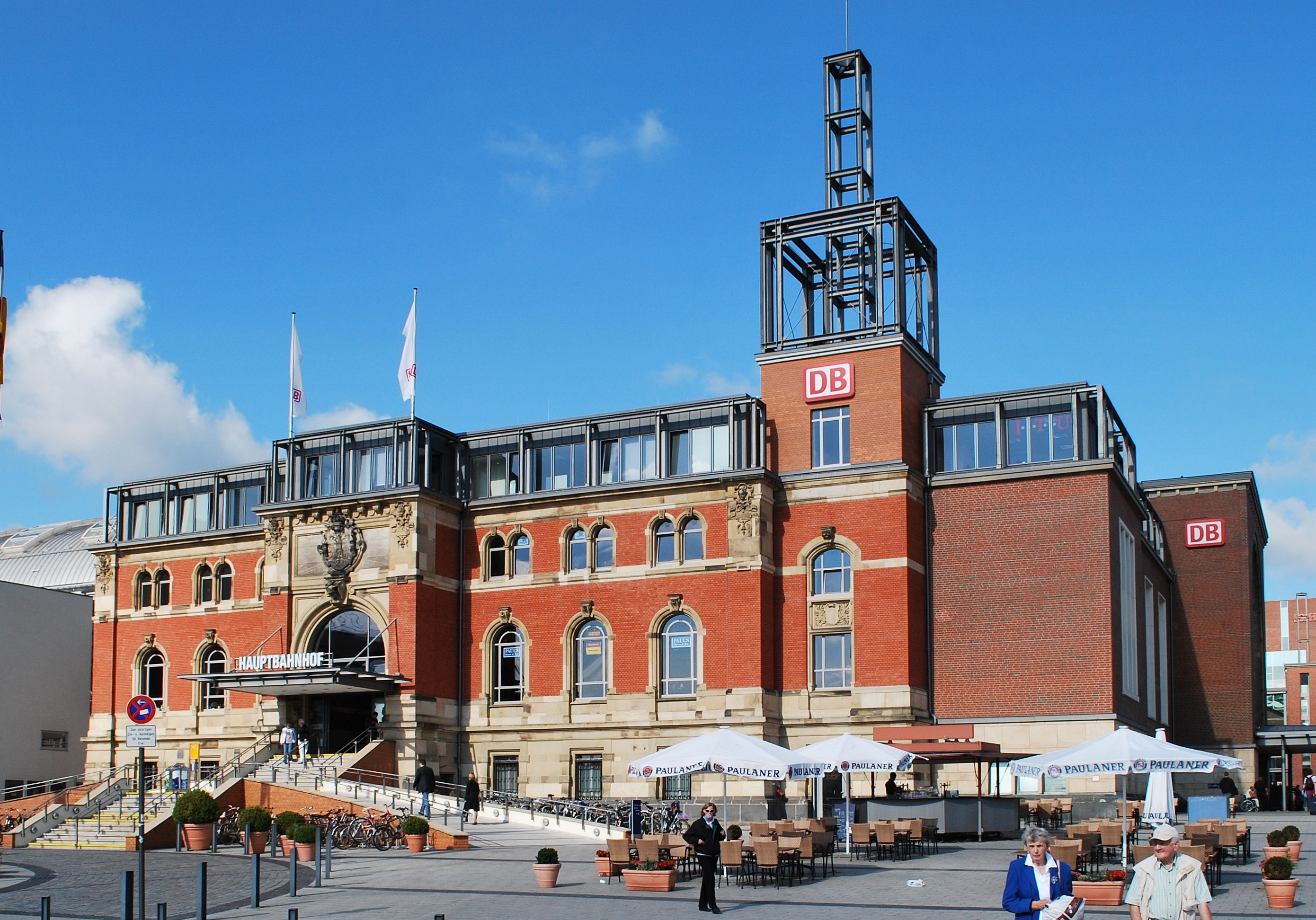 Kiel Hauptbahnhof (railway station), east front. Before 1918 entrance for royality (imperial eagle over the entrance, curving ramps, formerly for coaches and cars)